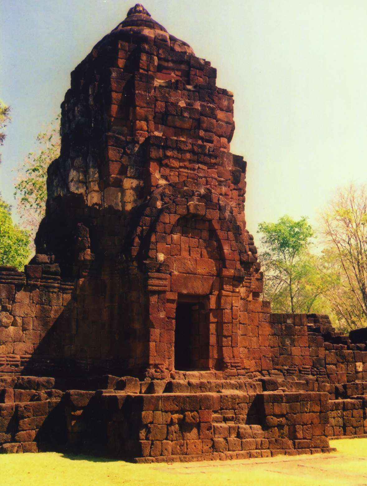 Mueang Sing historical park, Kanchanaburi, Thailand. View of the northern gopura (gateway). Photo taken by User:Ahoerstemeier on January 26 2005.